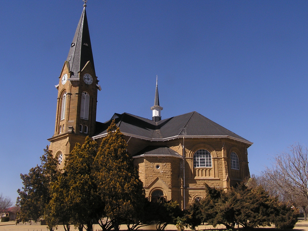 Dutch Reformed Church in Warden, Free State, South Africa This media shows a South African Protected Site with SAHRA file reference 9/2/316/0020.